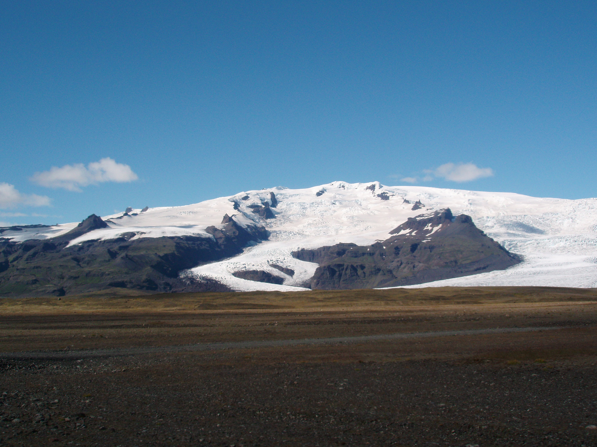 The glacier Vatnajökull, Iceland